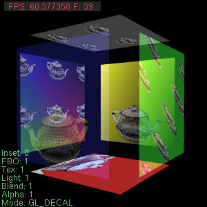 Author: Bob Free May be used freely. Screencap of the test.pl Perl OpenGL test app, demonstrating several openGL extensions, including Framebuffer Object, Vertex/Fragment Program.